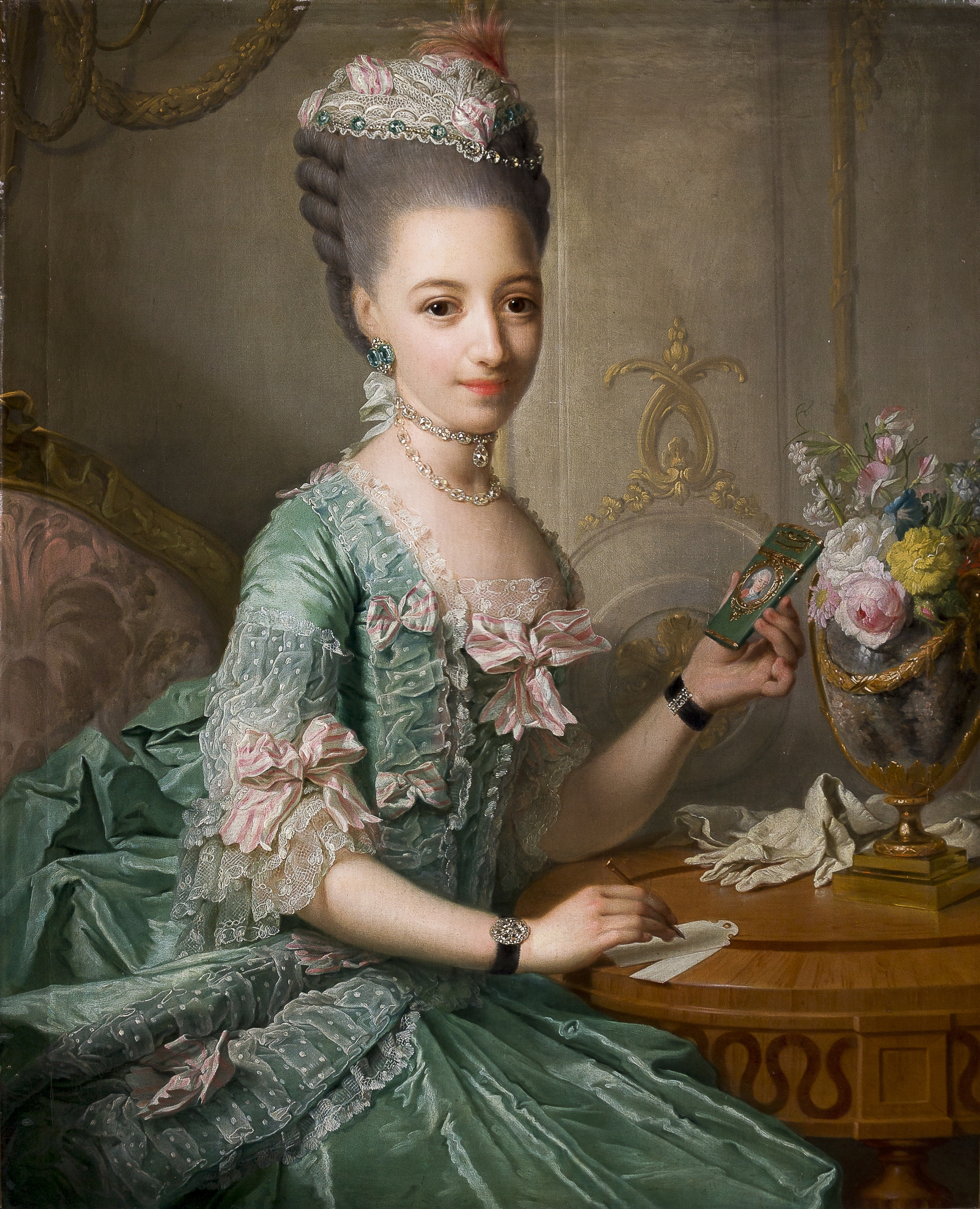 Portrait of Duchess Sophia Frederica of Mecklenburg-Schwerin (1758-1794), wife of Frederick